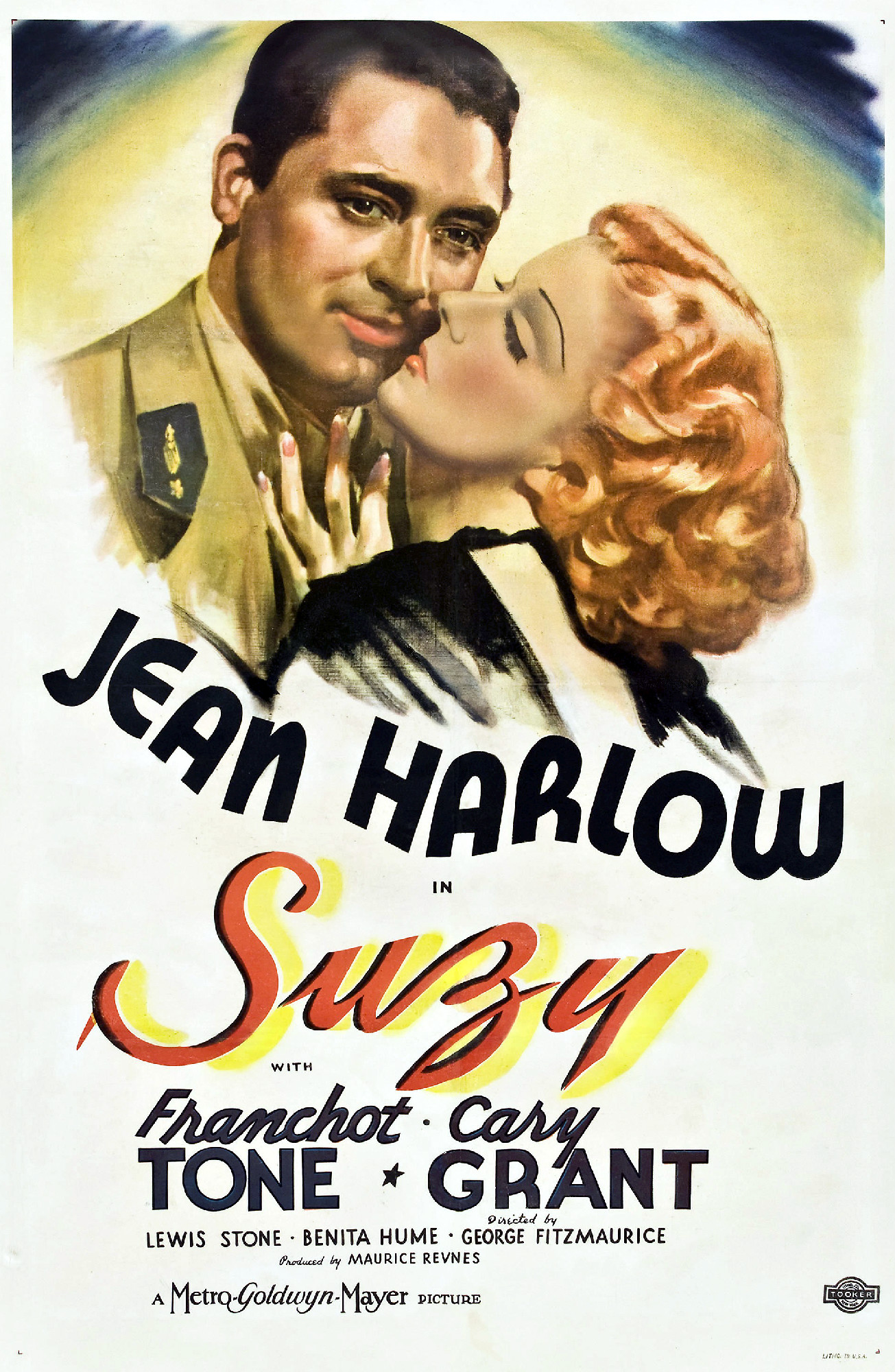 Poster for the 1936 film Suzy. There are no copyright marks on the item. At lower right is a logo of the Tooker Litho Company, New York--they printed the poster and Litho in USA.